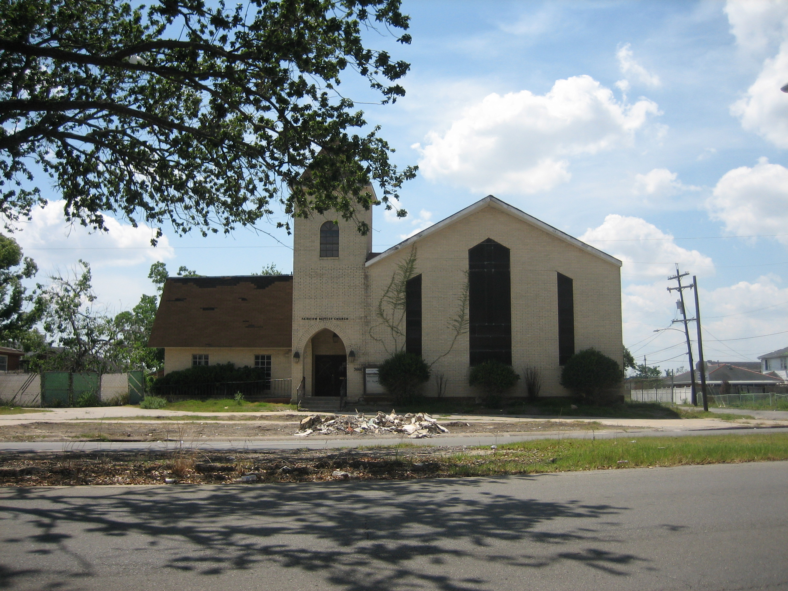 Fairview Baptist Church, New Orleans. Center for the famous Fairview Baptist Brass Band. Flooded about chest high standing water in the 2005 Hurricane Katrina levee failure disaster.